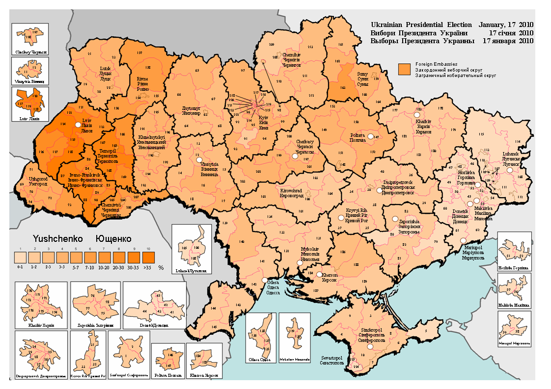 Result of Yushchenko on Ukrainian presidental election 2010, 17 January